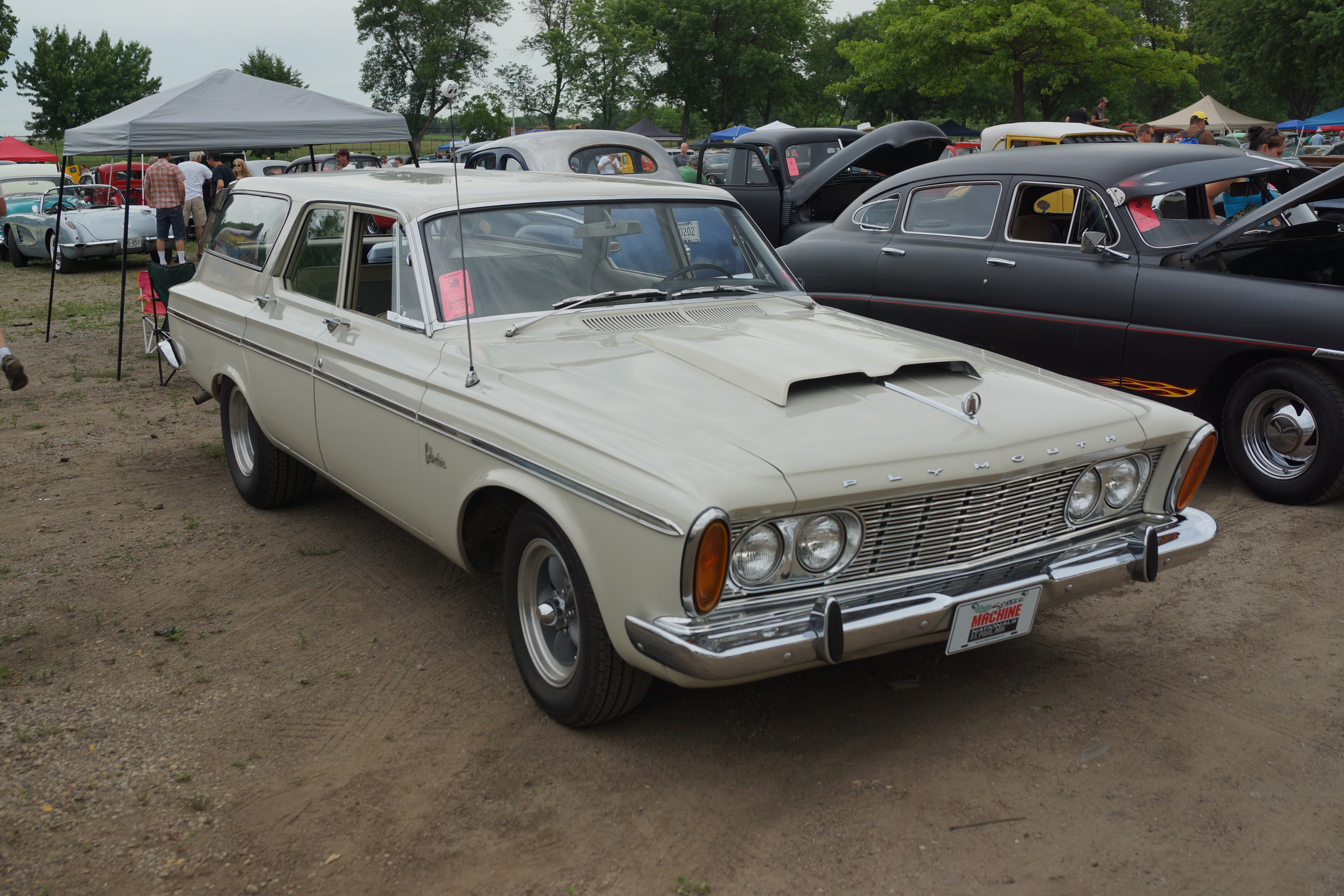 MSRA “BACK TO THE 50′s” 43nd Annual Car Show June 17-19, 2016 State Fairgrounds St. Paul Minnesota Click here for more car pictures at my Flickr site.